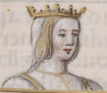 Urraca I of Leon-Castile